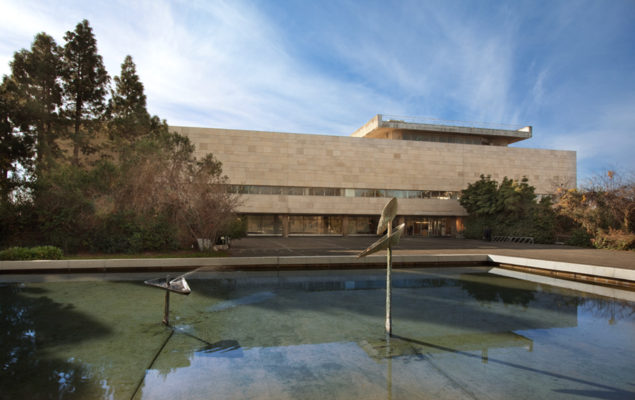 Image of the National Library of Israel building